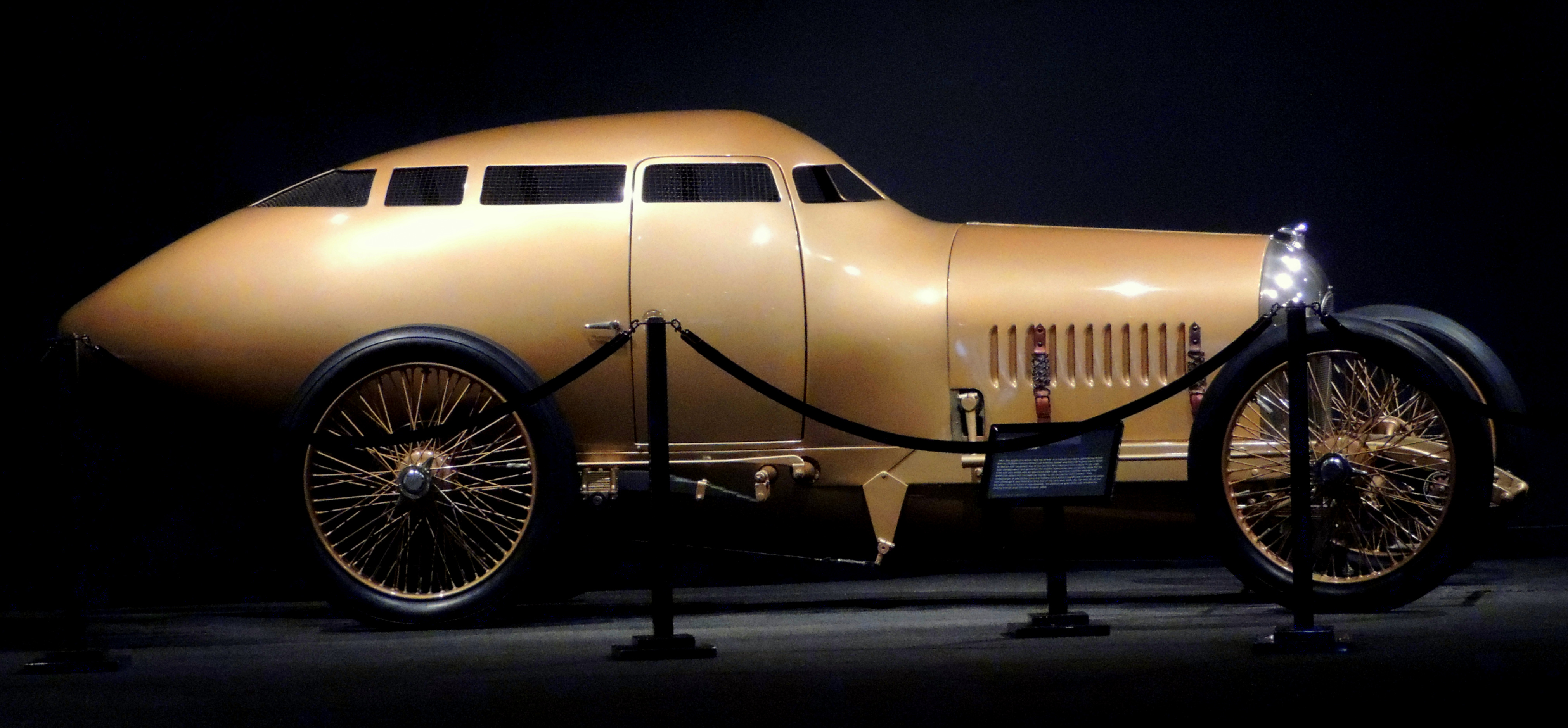 Photographed December 2012 at the Petersen Automotive Museum.